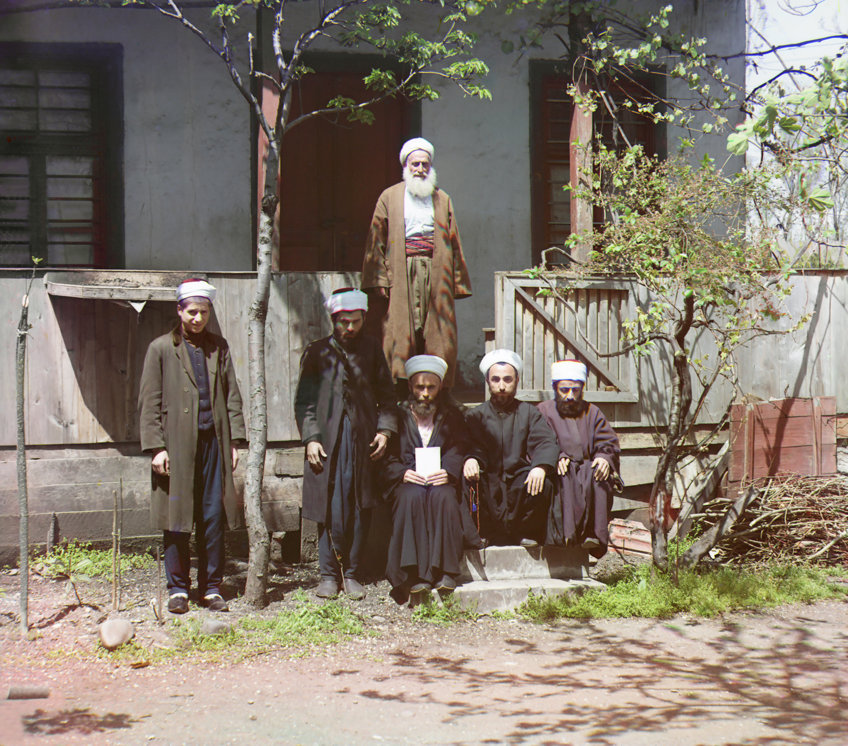 Mullahs at the Mosque of Azizy A group of Mullahs sit on the stairs of the Mosque of Azizy near Batumi. Ca. 1910, Russia. Original Description: Mullahs in mosque. Aziziia. Batum.